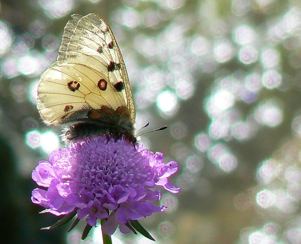 Parnassius phoebus on the flower, Grossglockner Hochalpenstrasse, Austria, 2200 m altitude